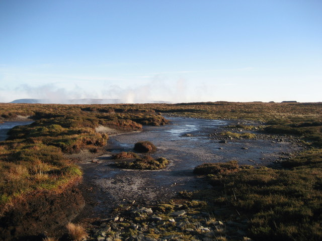 Frozen Peat on Birks Fell. Usually a hopeless morass. When frozen, however this area of peat makes for easy progress